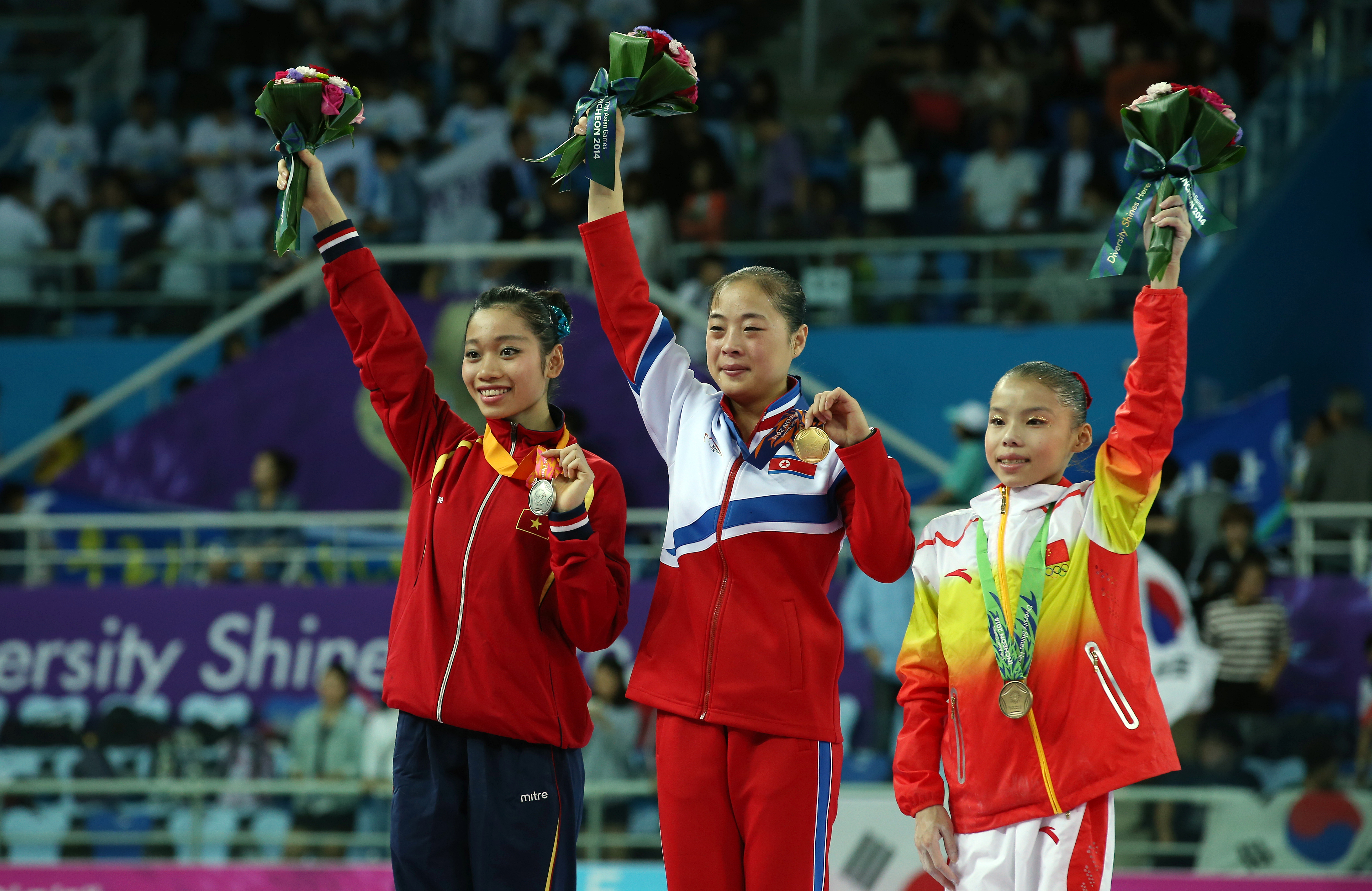 Incheon Asian Games 2014